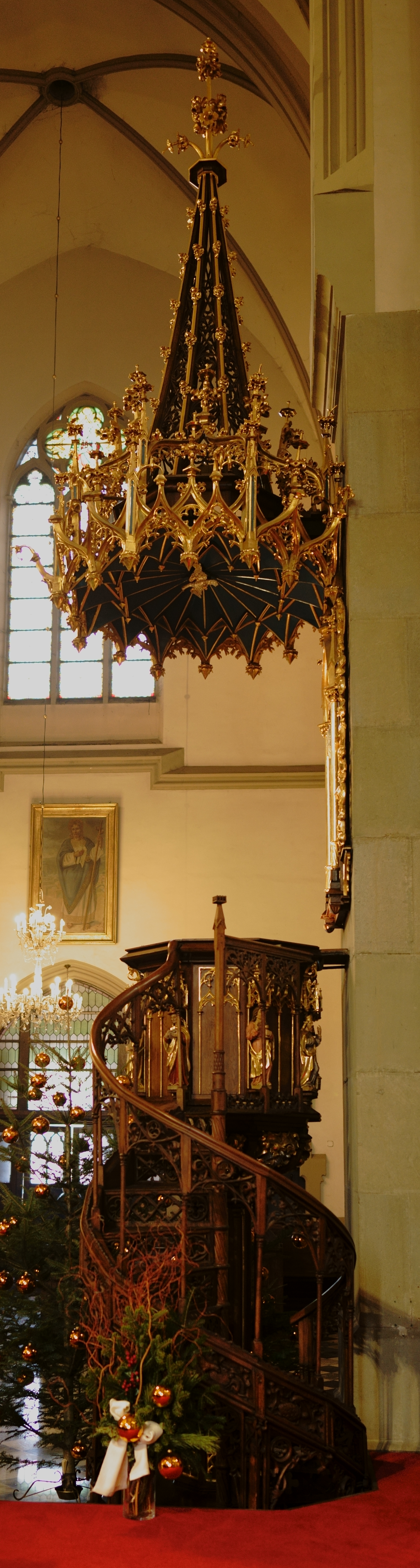 Church of St Joseph pulpit, 2 Zamoyskiego street, Podgorze, Krakow, Poland, author Wit Wisz.